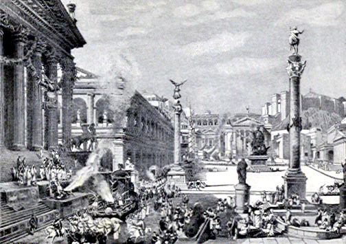 This elementary history of Rome presents short stories of the great heroes, mythical and historical, from Aeneas and the founding of Rome to the fall of the western empire. Around the famous characters of Rome are graphically grouped the great events with which their names will forever stand connected. Vivid descriptions bring to life the events narrated, making history attractive to the young, and awakening their enthusiasm for further reading and study.